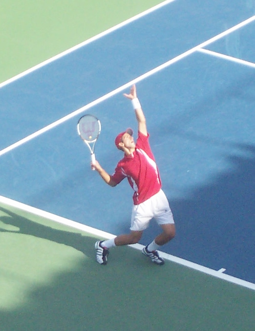 Novak Djokovic at the 2006 U.S. Open